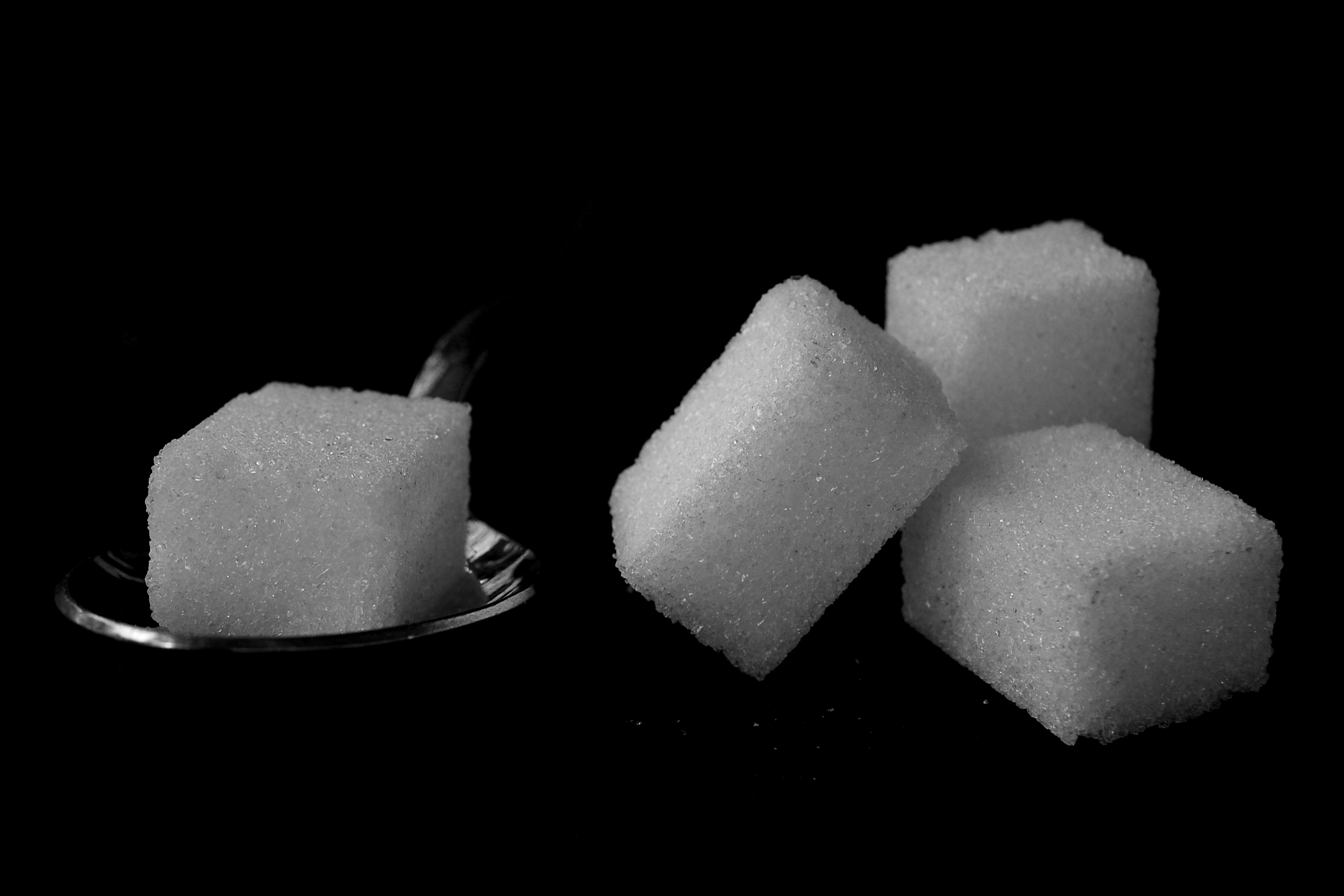 Image of sugarcubes isolated on black.